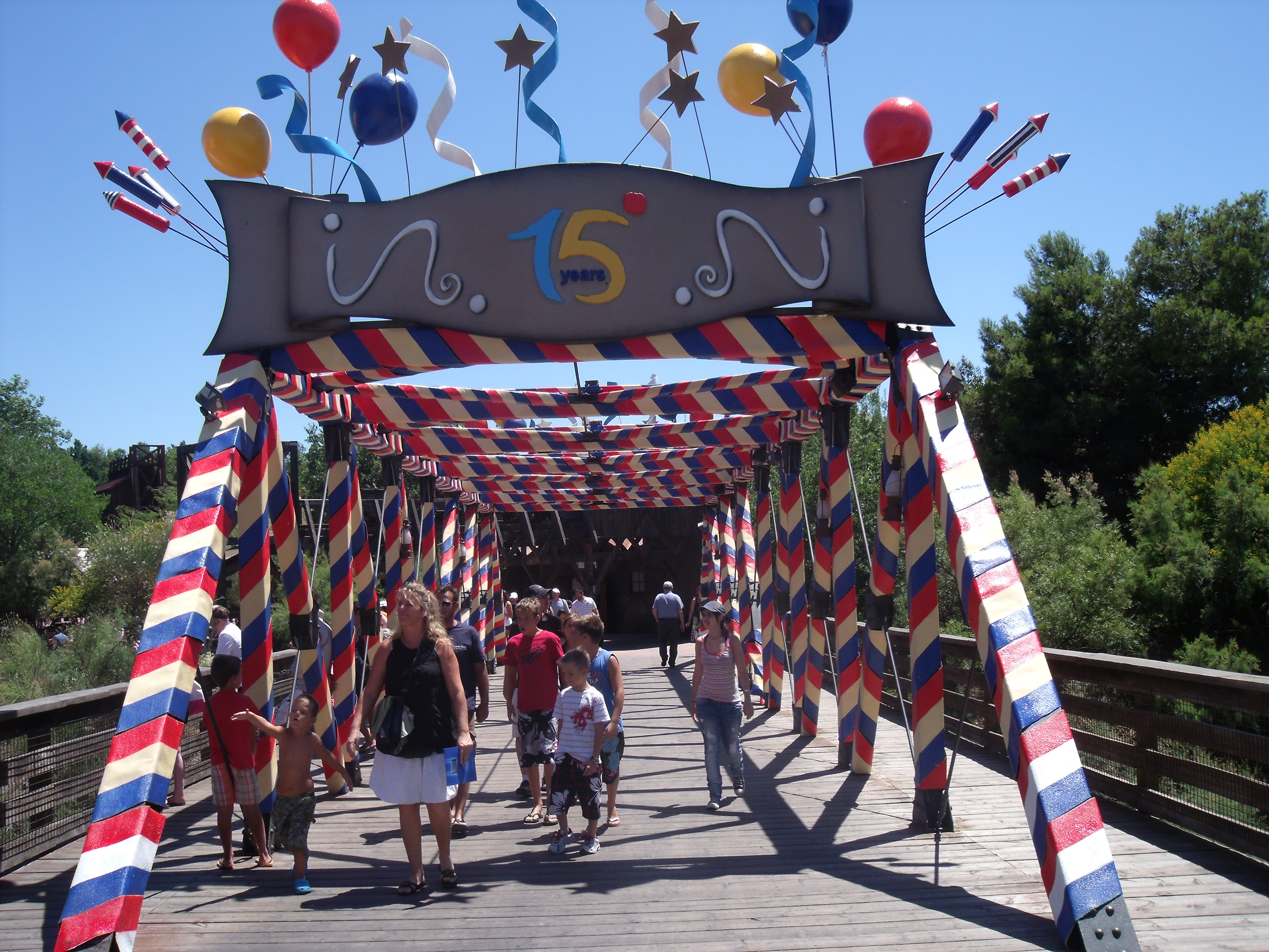 15th anniversary in PortAventura (Far West)